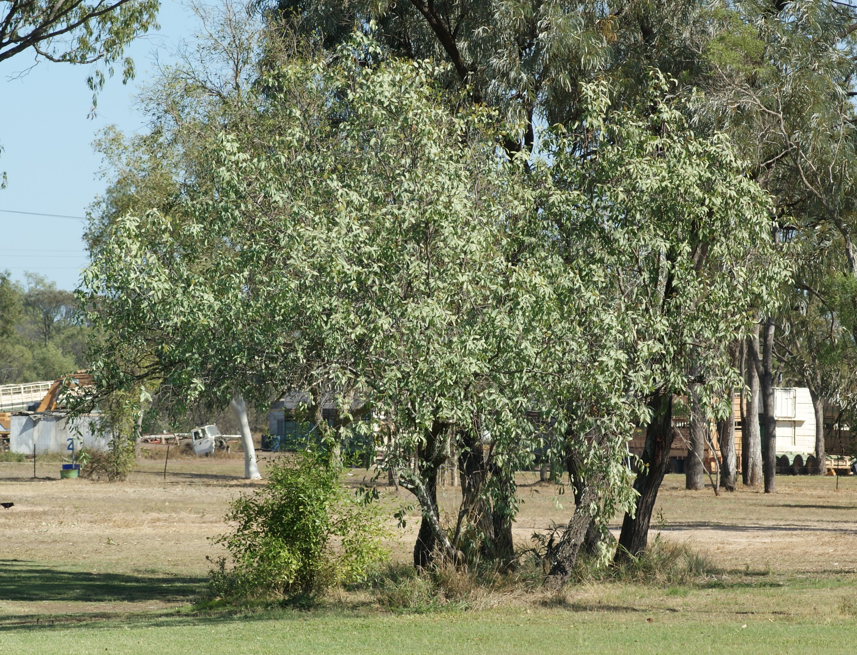 Santalum lanceolatum - Northern sandalwood: This plant is parasitic and is very difficult to propagate. .au/APOL31/sep03-3.html